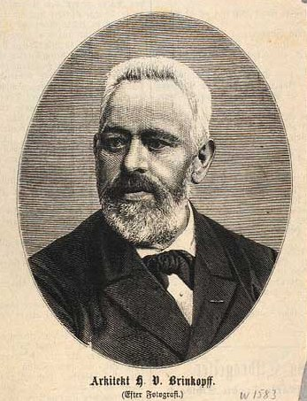 Danish architect and draftsman Henrik Vilhelm Brinkopff (1823-1900)